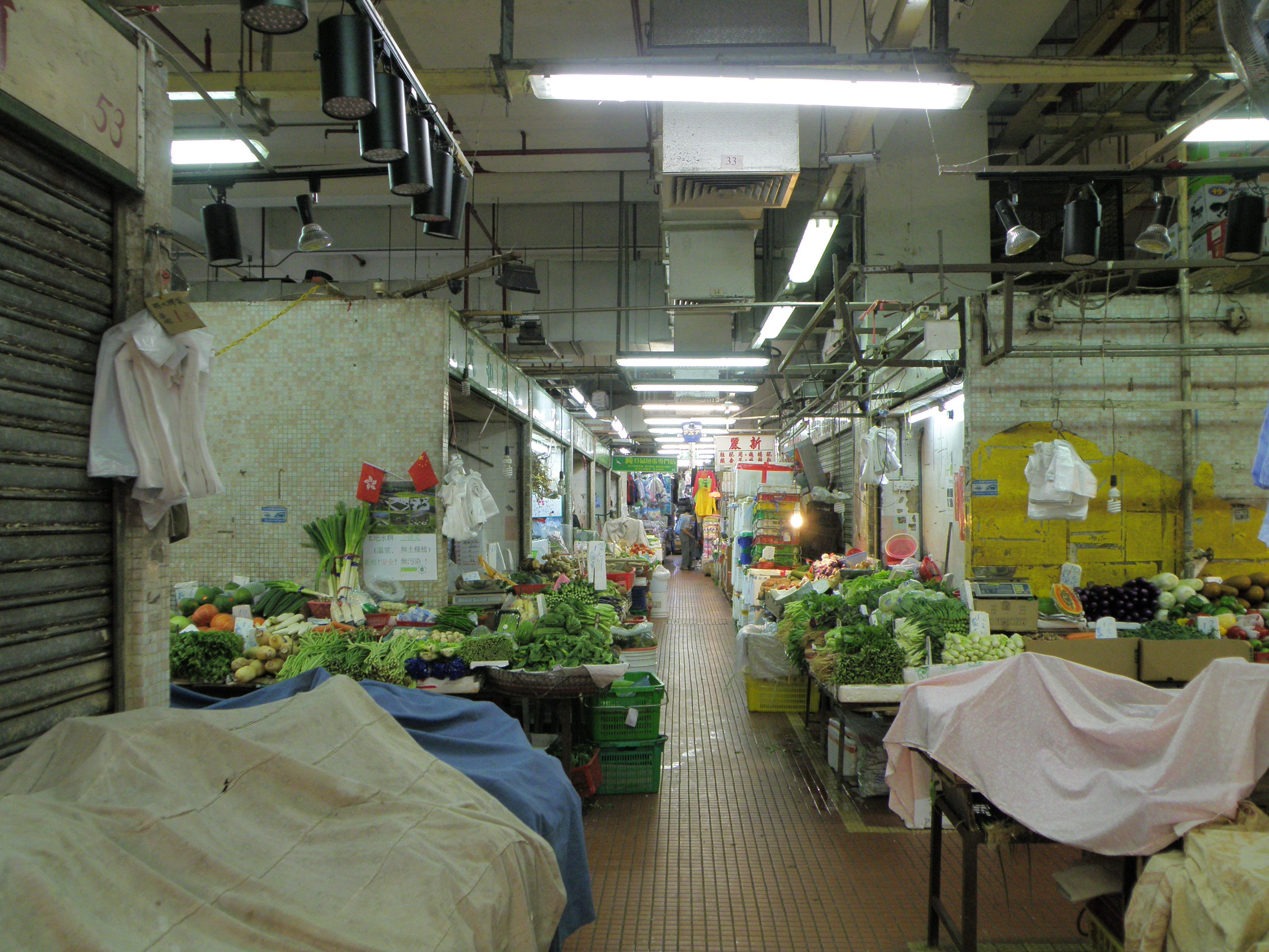 Tak Tin Market in Lam Tin, Hong Kong.